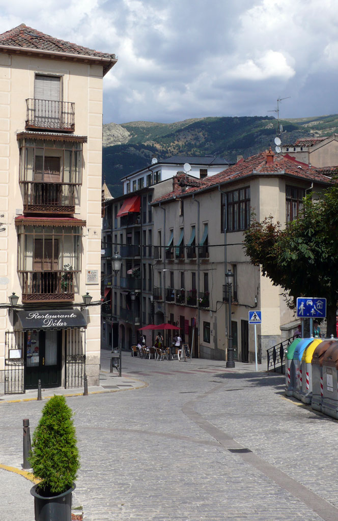 Small square in San Ildefonso, province of Segovia, Spain